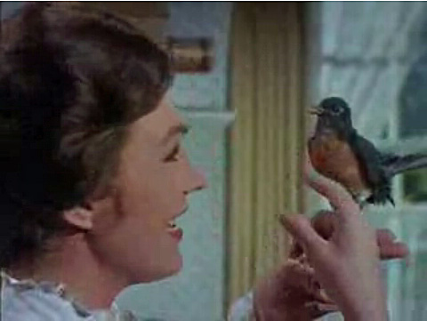 Screenshot of Julie Andrews from the trailer for the film Mary Poppins (film)